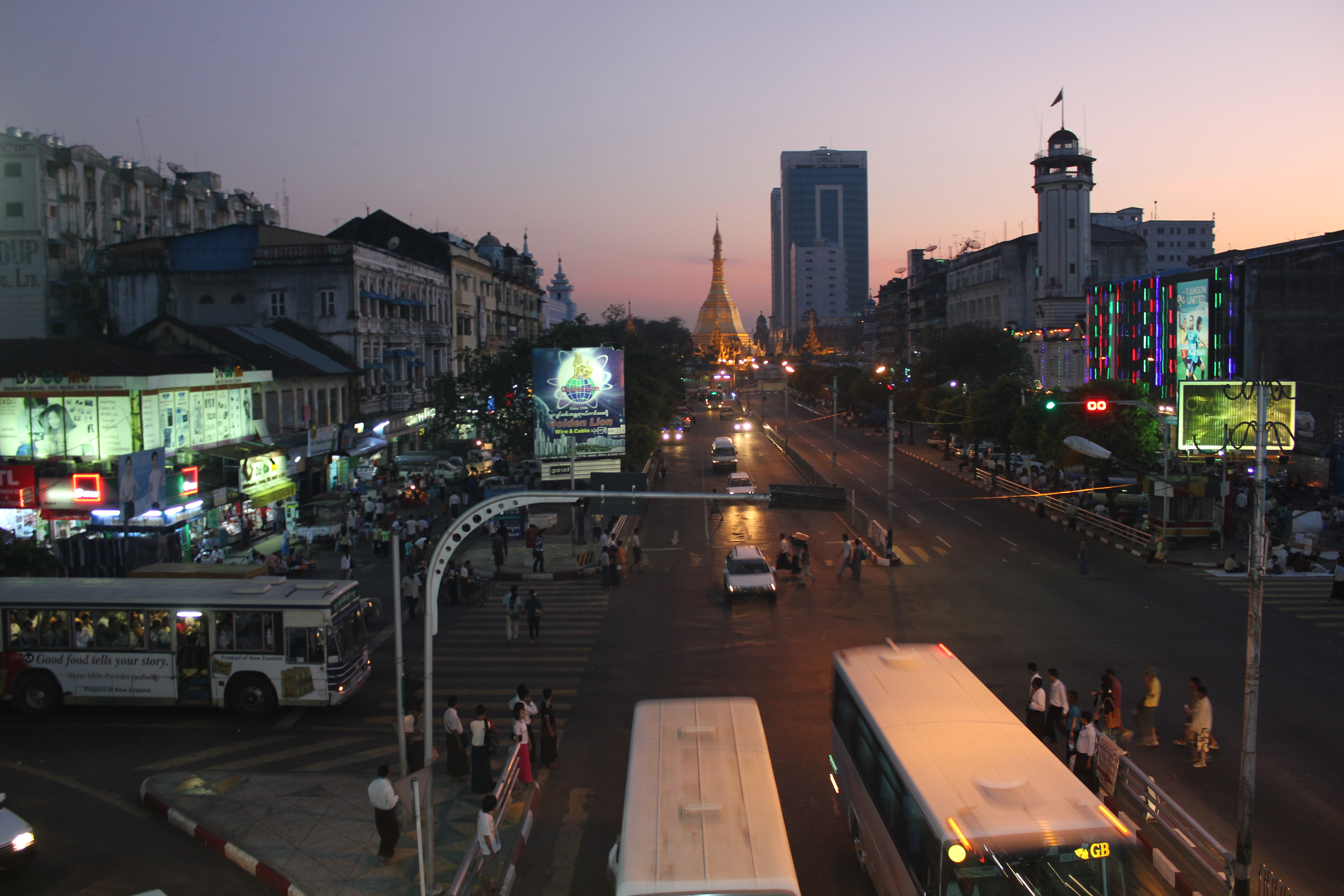 Yangon downtown at nightမြန်မာဘာသာ: ဆူးလေလမ်းမကြီးနှင့် ဆူးလေ​ဘုရား